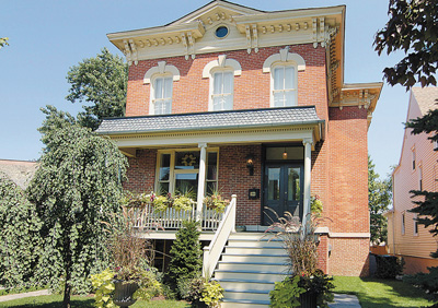 Photograph of 3945 N. Tripp Avenue House. Known as the Stephen A. Race House. Also known as the Race House